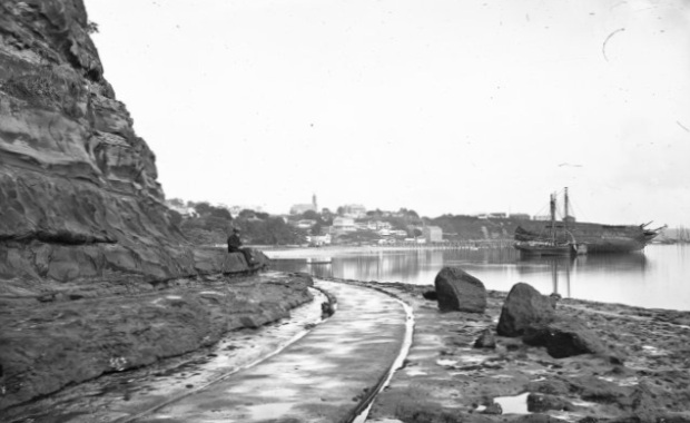 Point Britomart seen from the east end of Official Bay, with Fort Britomart atop it, Auckland, New Zealand in 1864. Extended information on origin webpage reads: Official Bay, Auckland in 1864, from the beach 1864 / Reference number: 1/2-096108-G / 1 b&w original negative(s). Wet collodion glass negative 4.5 x 7.25 inches. / Part of Beere, Daniel Manders, 1833-1909 :Negatives of New Zealand and Australia (PAColl-3081) Photographic Archive / Scope and contents: Looking west over Official Bay, Auckland, from the beach, showing St Paul's Anglican Church and Fort Britomart in the background. / Photograph taken in 1864 by Daniel Manders Beere.